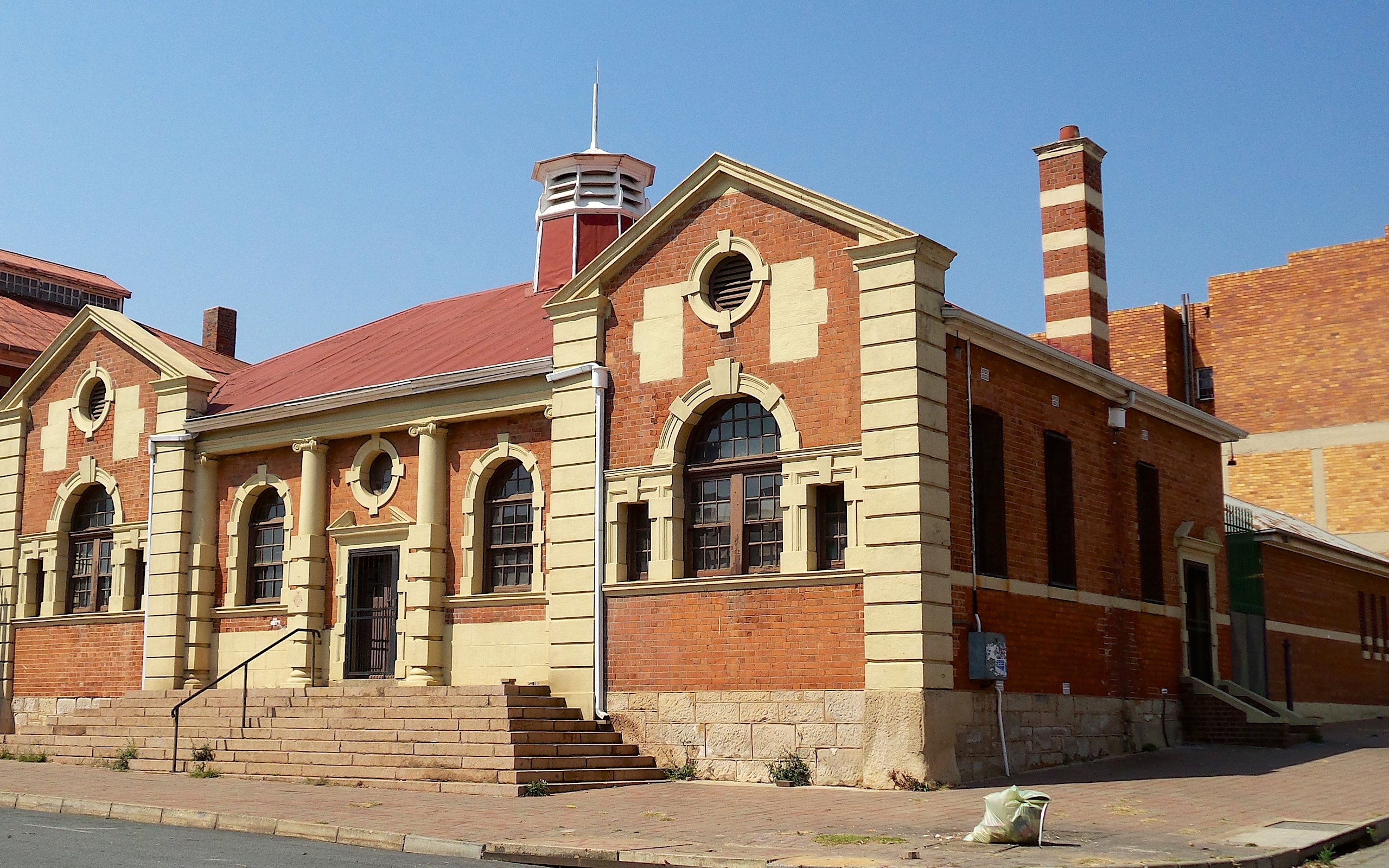 Old Post Office, Market Street, Boksburg This media shows a South African Protected Site with SAHRA file reference 9/2/209/0001.